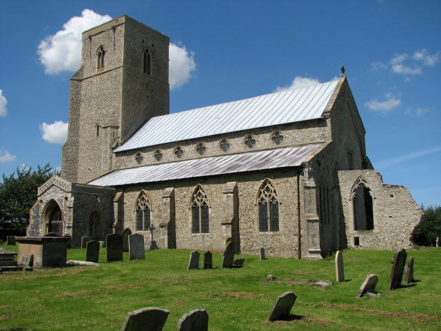 St Peter's parish church, Great Walsingham, Norfolk, seen from the southeast, showing the ruin of the former chancel on the right